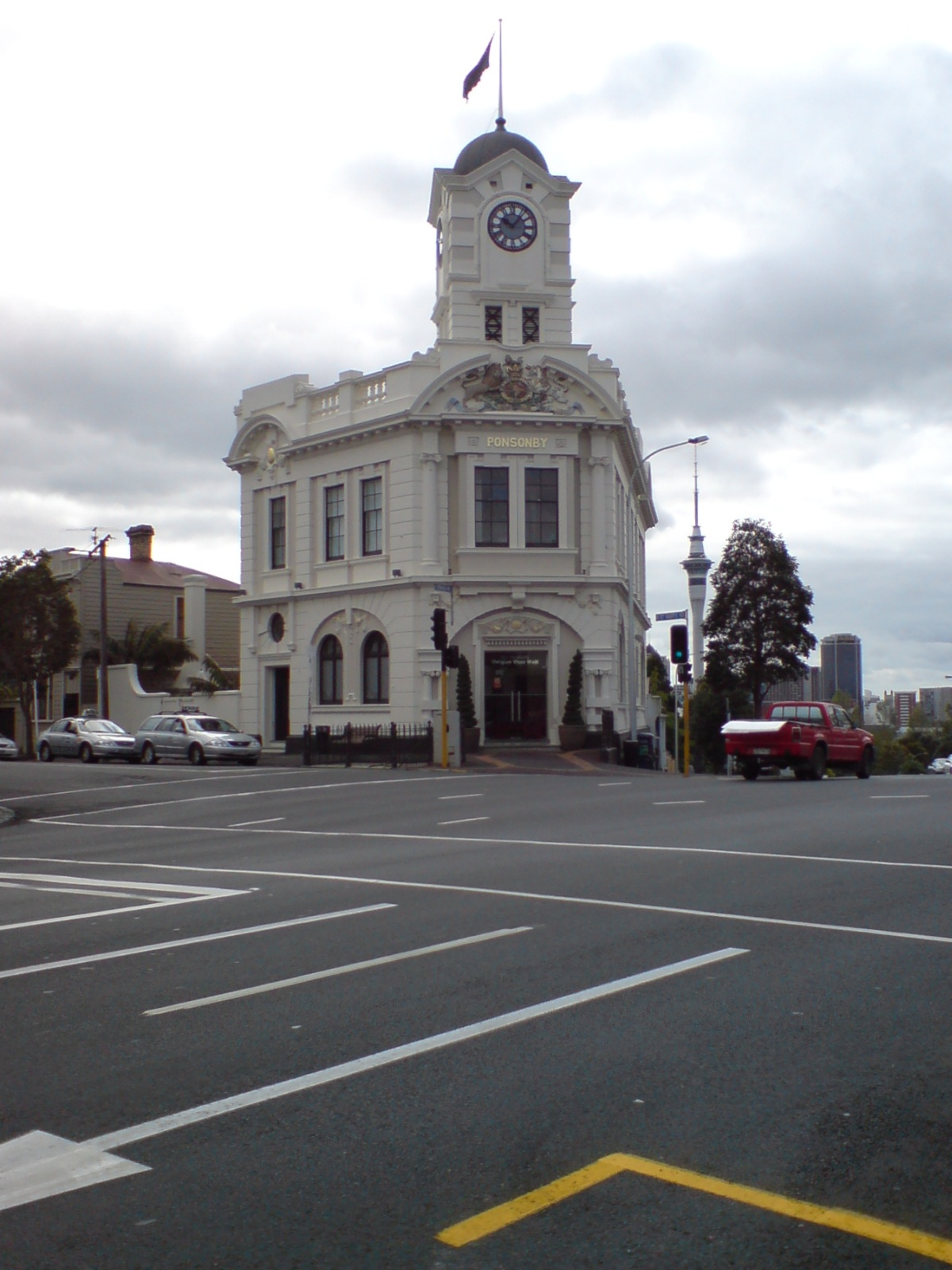 A bar (the Belgian Beer Cafe) in the former Ponsonby Post Office, a heritage building on the corner of St Marys and College Hill Roads, Ponsonby, Auckland City, New Zealand. New Zealand Historic Places Trust Register number: 628.